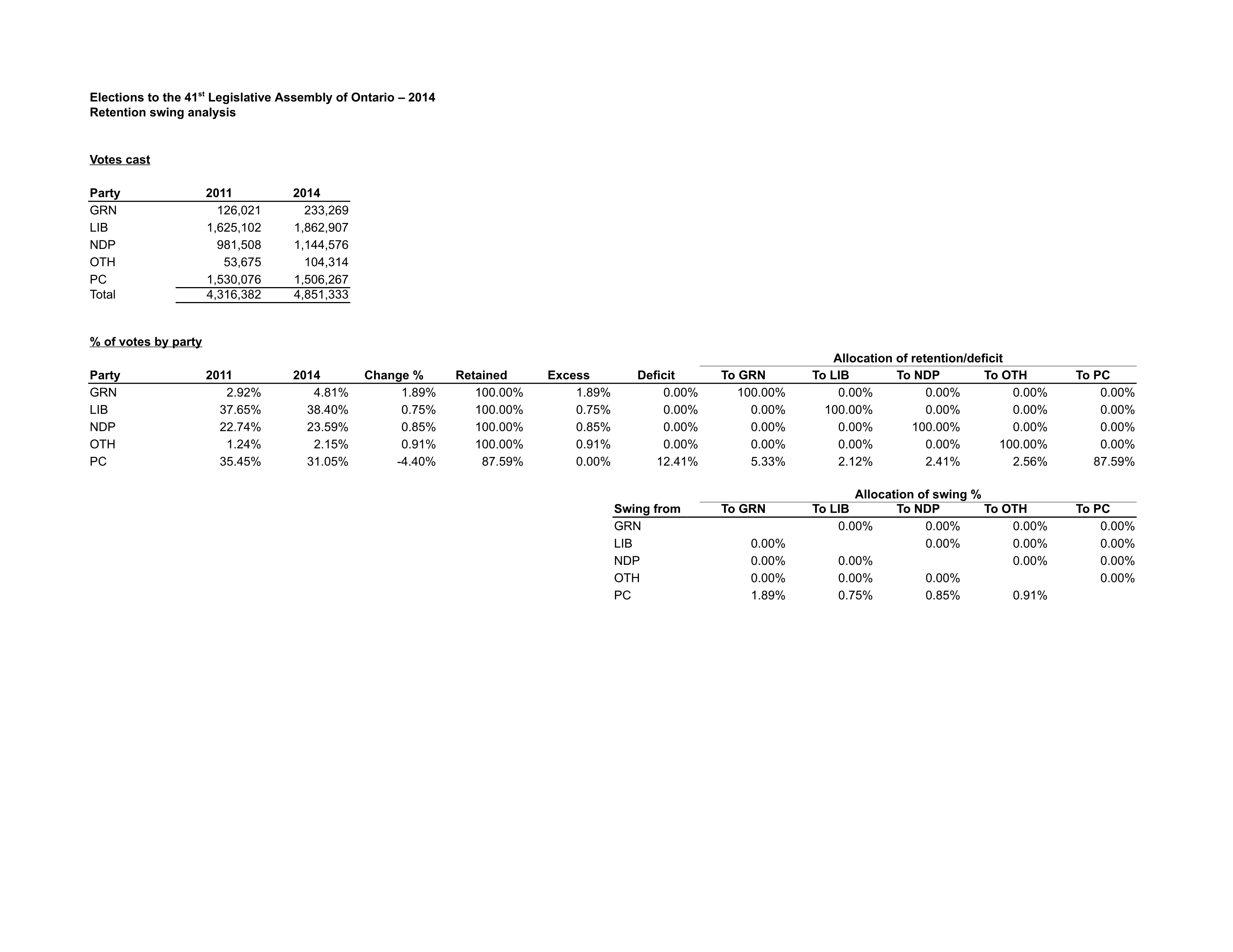 Analysis of vote percentages retained or lost by party, and resulting vote swings between parties, for the 2014 Ontario general election compared to the previous 2011 election.